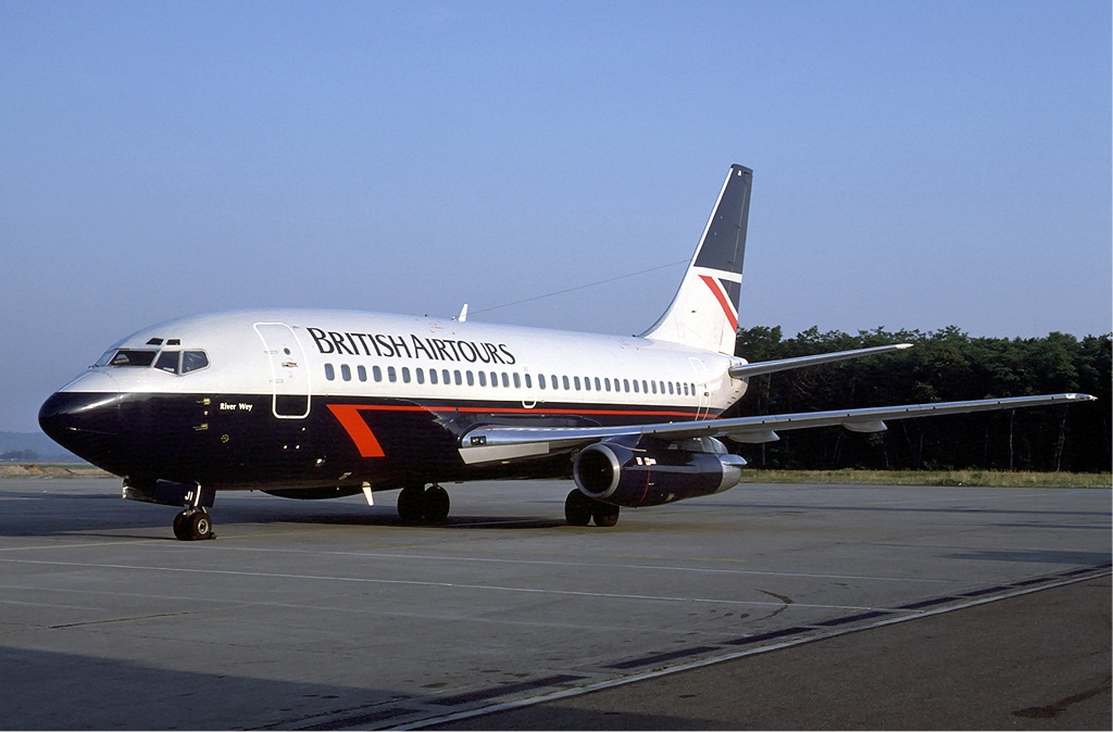 British Airtours Boeing 737-200